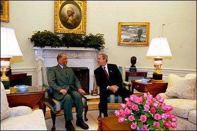 Meeting in the Oval Office June, 26, 2003, President Bush thanked Prime Minister Jugnauth of Mauritius for hosting the Africa Growth and Opportunity Act Forum in January 2003.